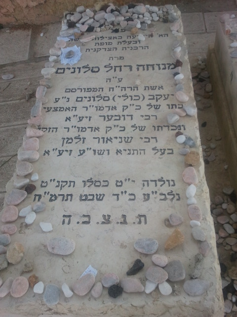 Menucha Rochel Slonim's grave tombstone in Hebron's old cemetery, Israel.